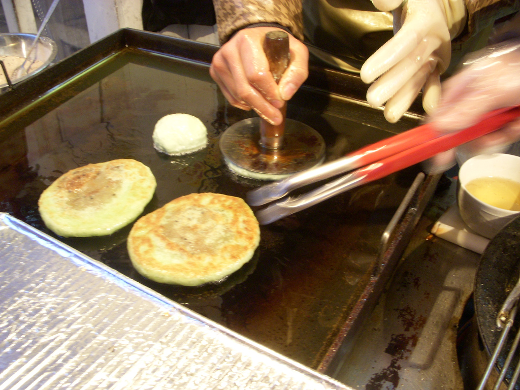 Making hotteok (호떡). A nifty tool with a stainless steel circle and wooden handle is used to press the filled dough into a large circle, while frying on a large oil-filled griddle